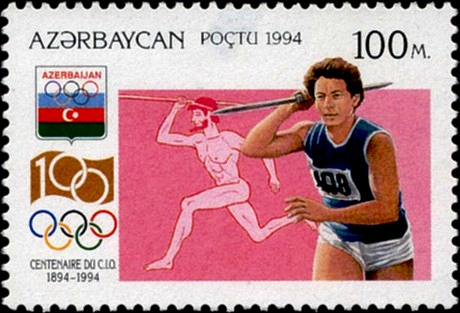 Stamp of Azerbaijan